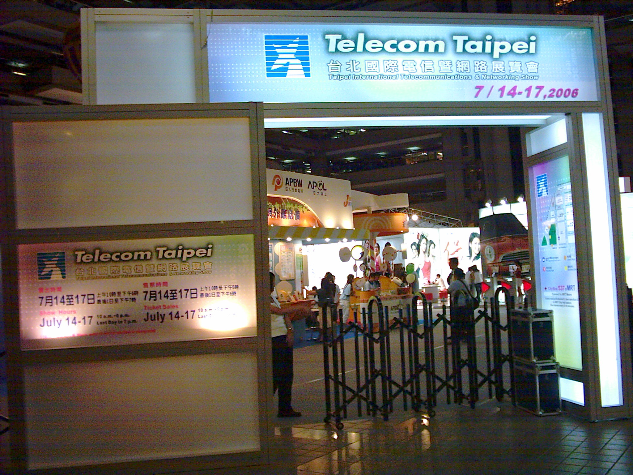 Taipei Telecom 2006 closed without a vision because the quality and purpose of the show were uncertained.